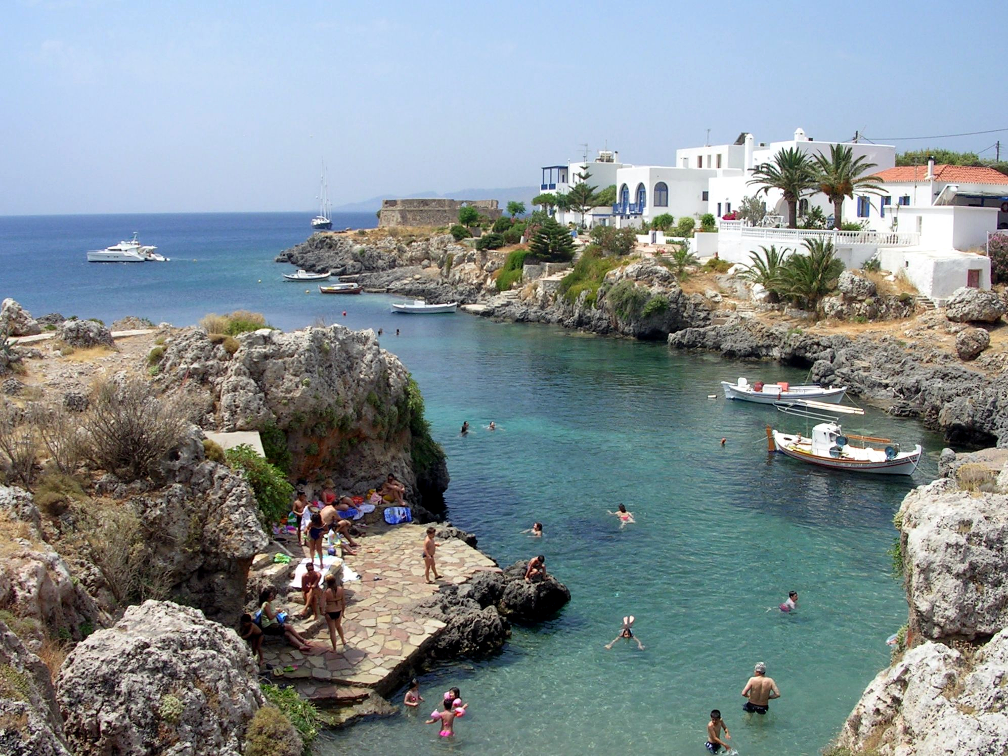 The small port of Avlemonas, Kythira.